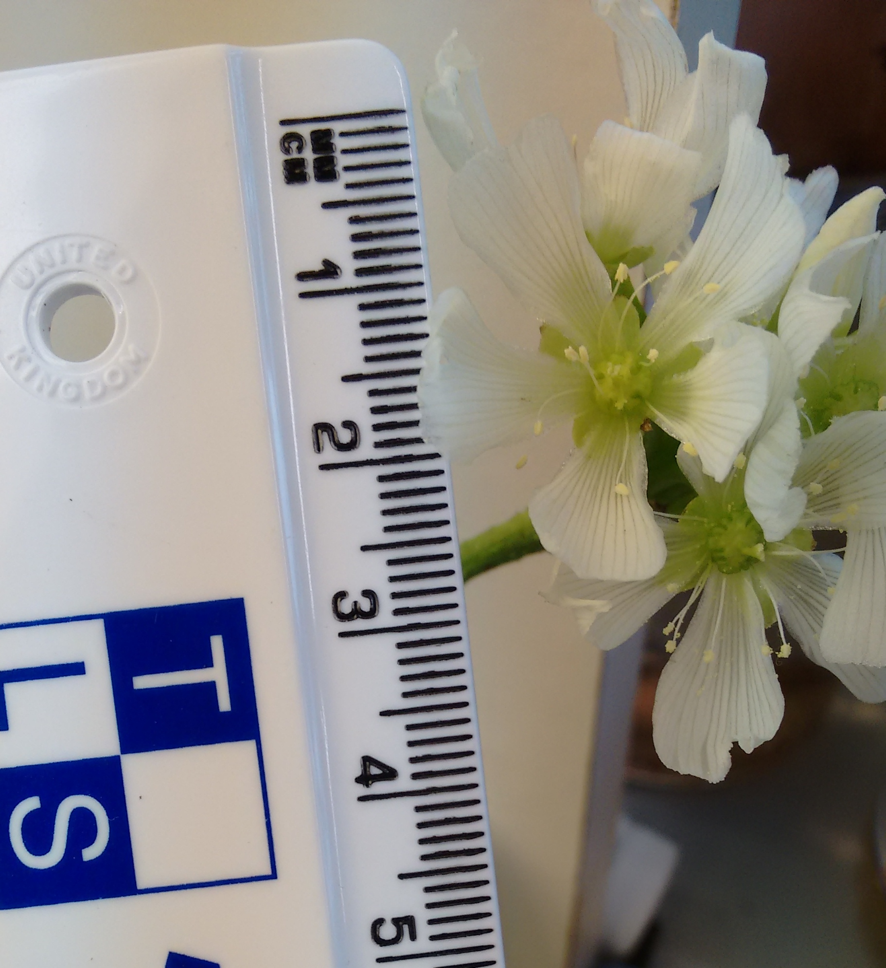 Venus flytrap flower rosette with ruler